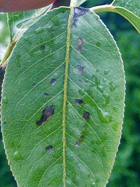 brown spot infection symptom on leaf from pear Joséphine de Malines